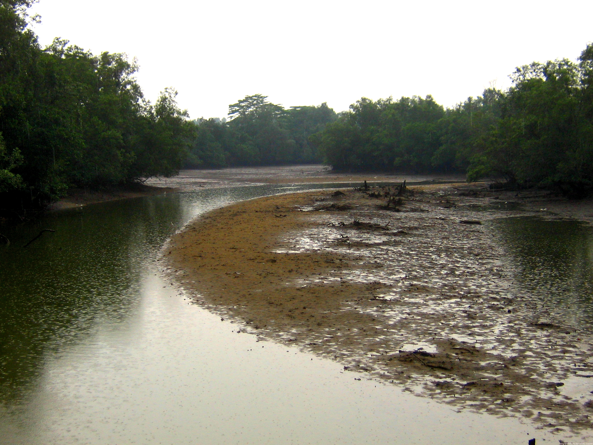 Interior of the Sungei Buloh Wetland Reserve